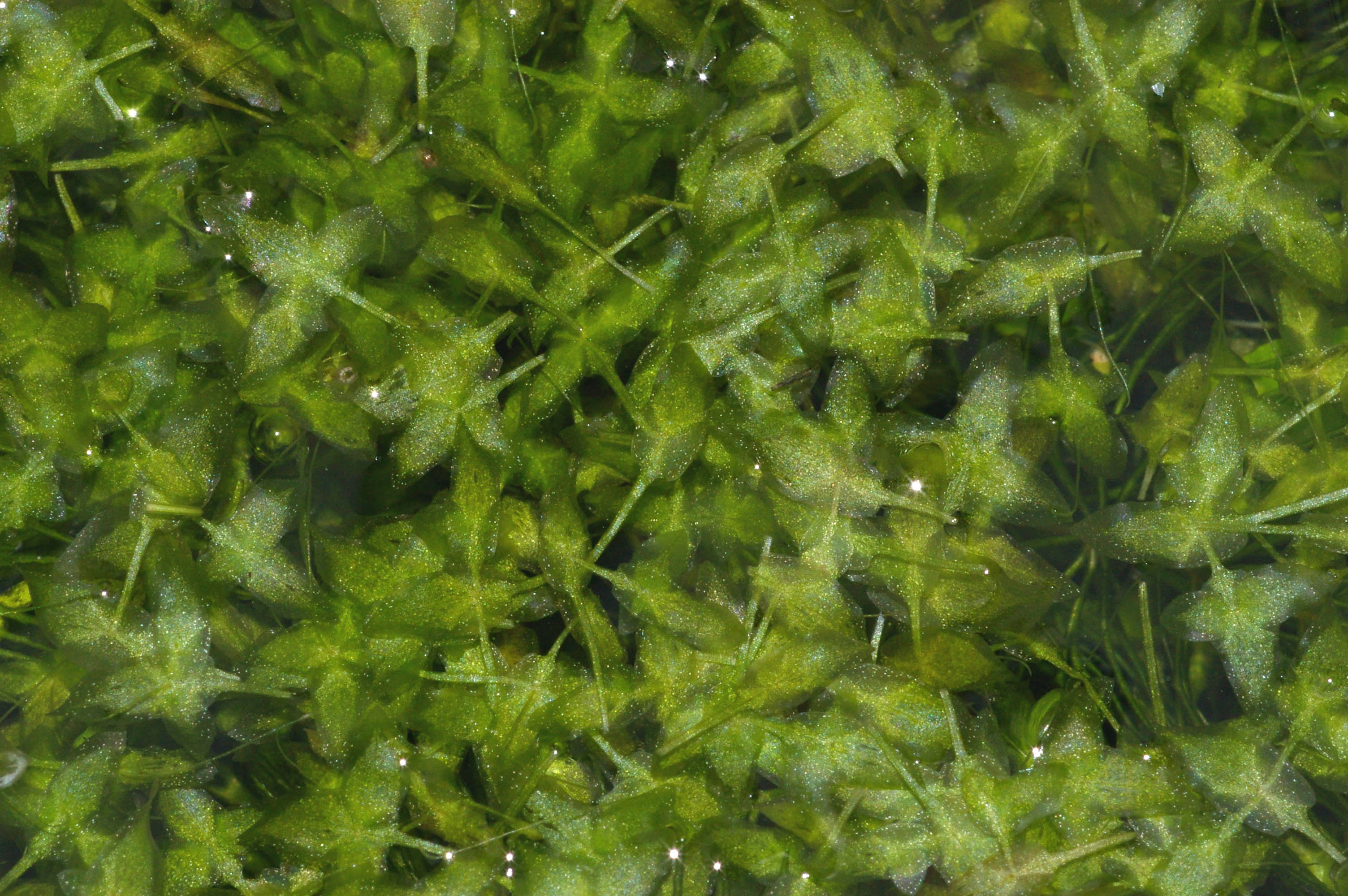 The waterplant Ivy duckweed or Star duckweed, Lemna trisulca, submerged just below the surface of a pool. (Vertical view from above).